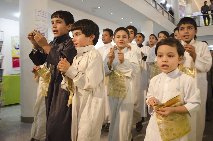 Gargee'an celebration in Museum of Contemporary Art, Ahwaz